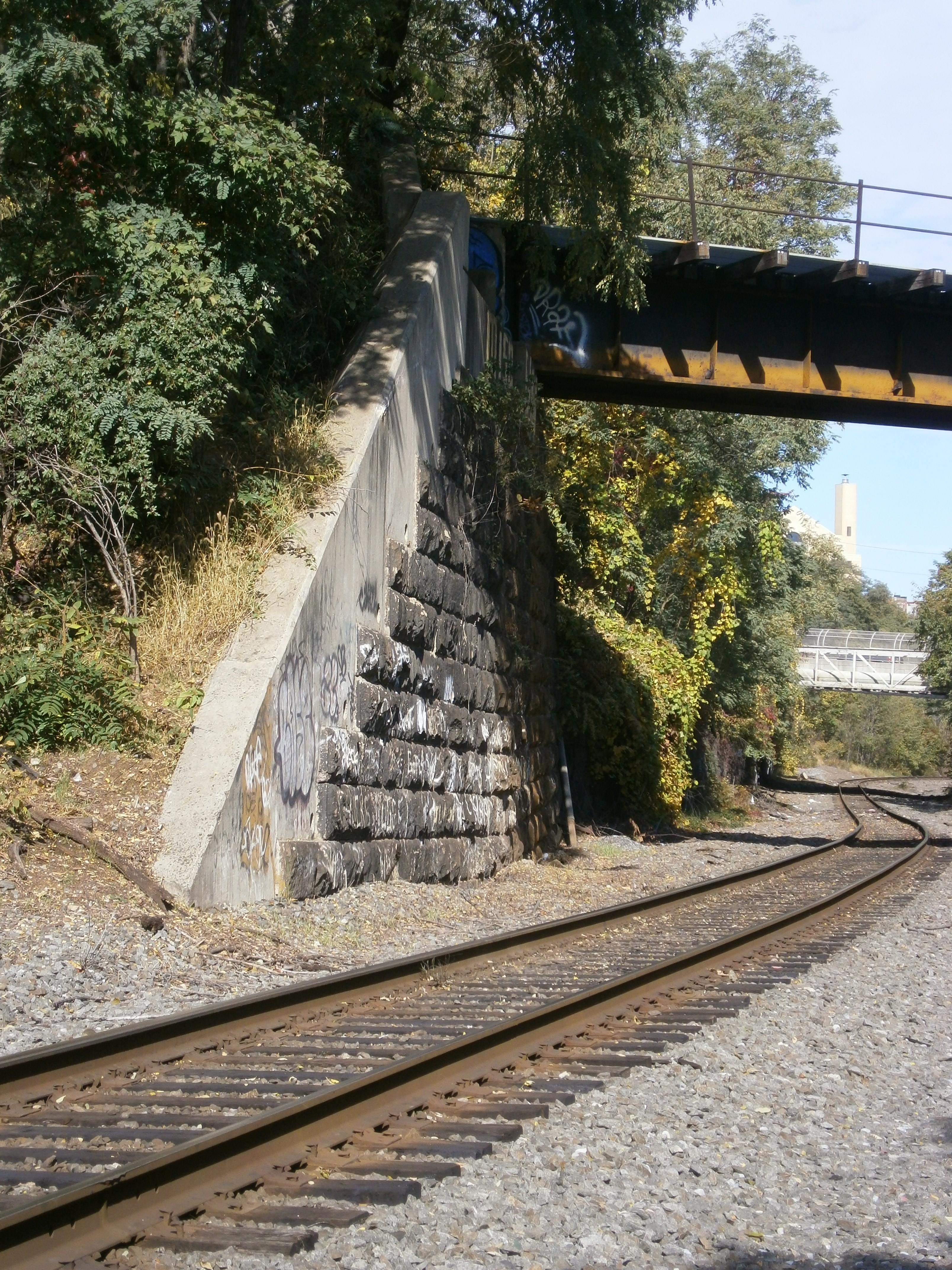 National Docks Secondary crossing under Passaic and Harsimus Line at end of Bergen Hill Cut, Jersey City